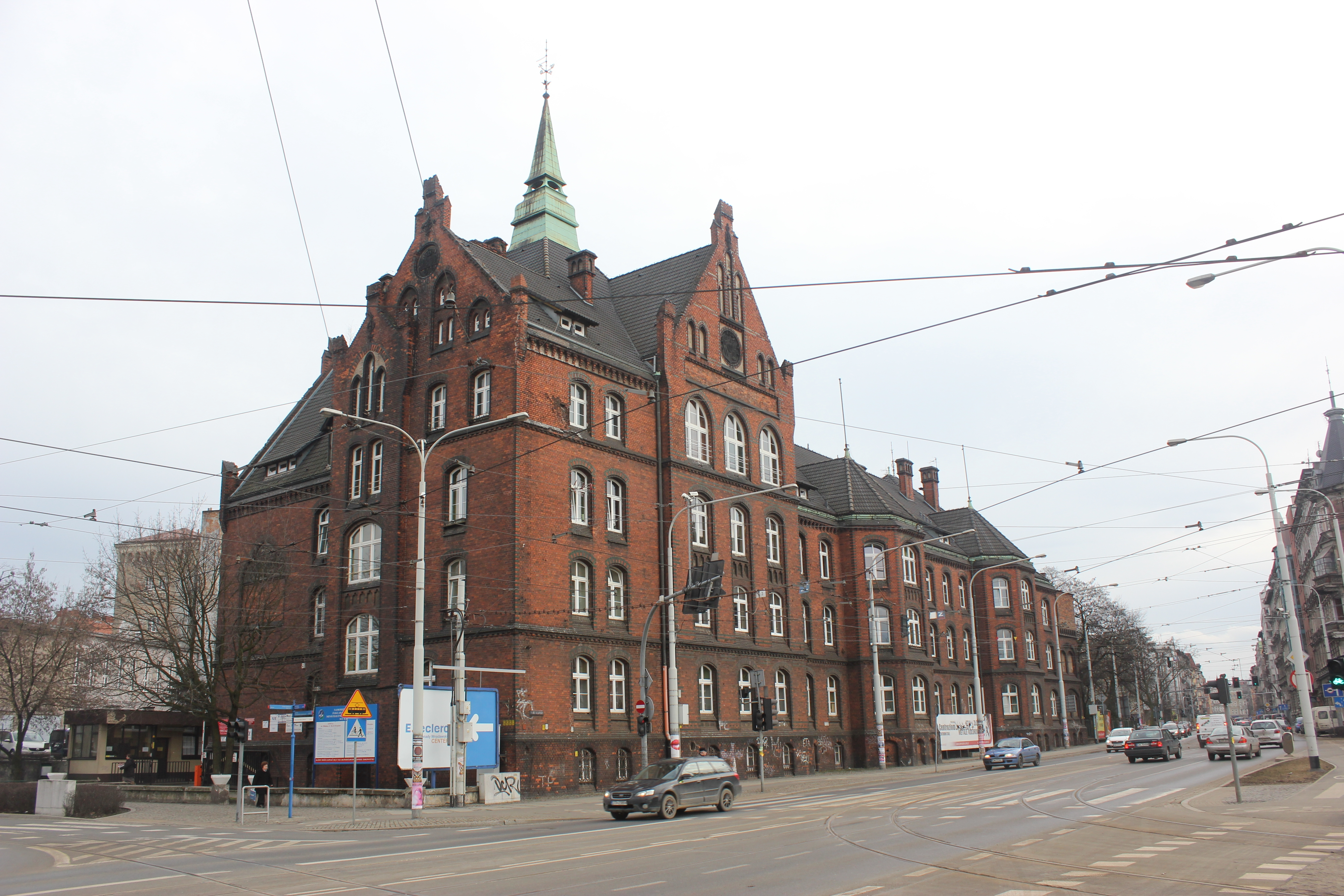 Wrocław - MSWiA hospital